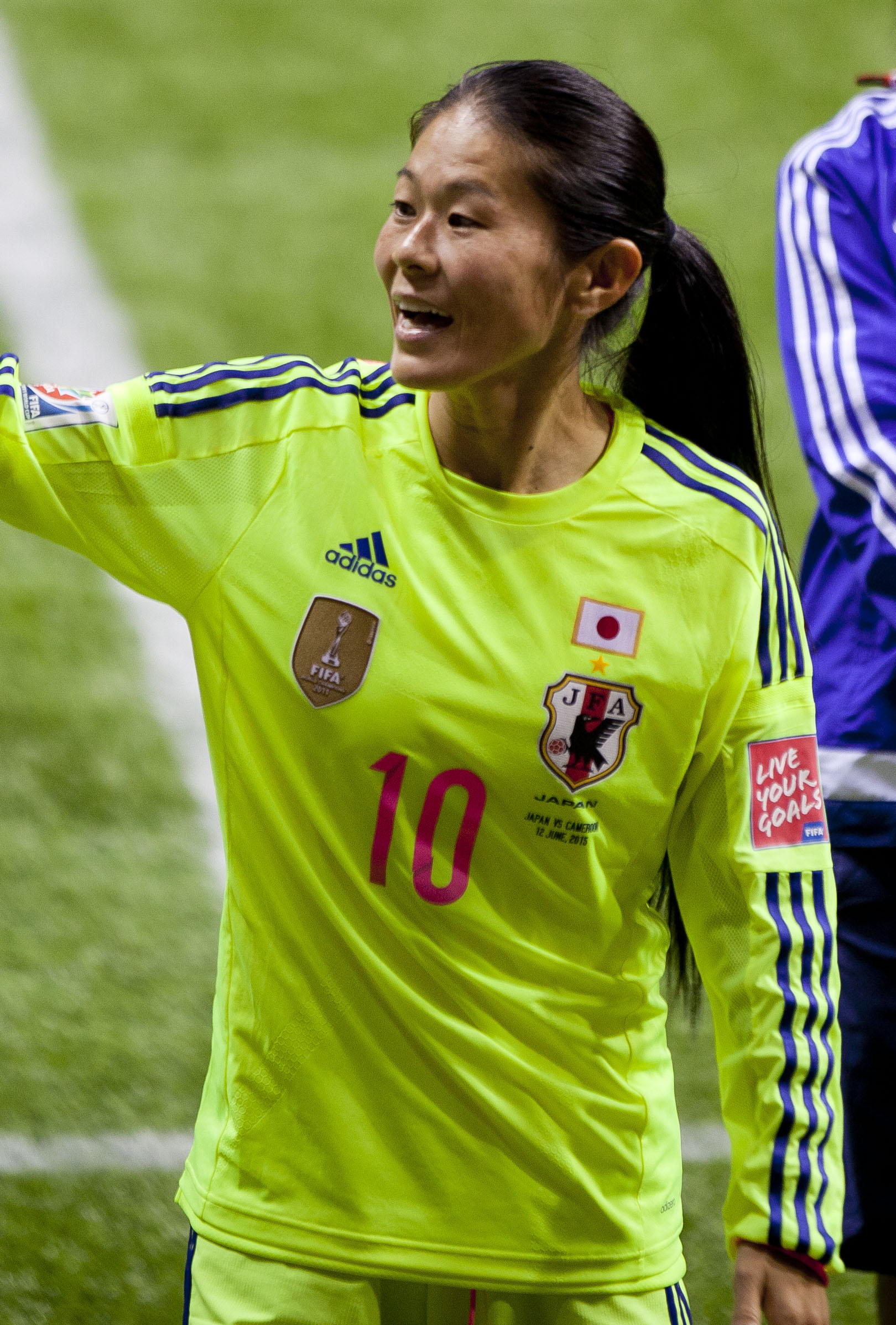 FIFA Women's World Cup Canada June 12th, 2015